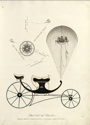 Design of a Charvolant, kite-drawn carriage